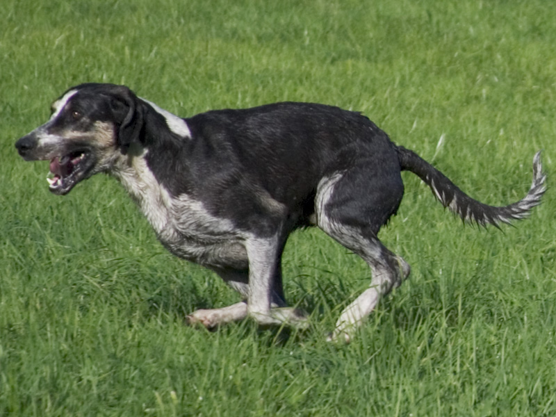 A Grand Anglo-Fancais blanc et noir at full gallop.